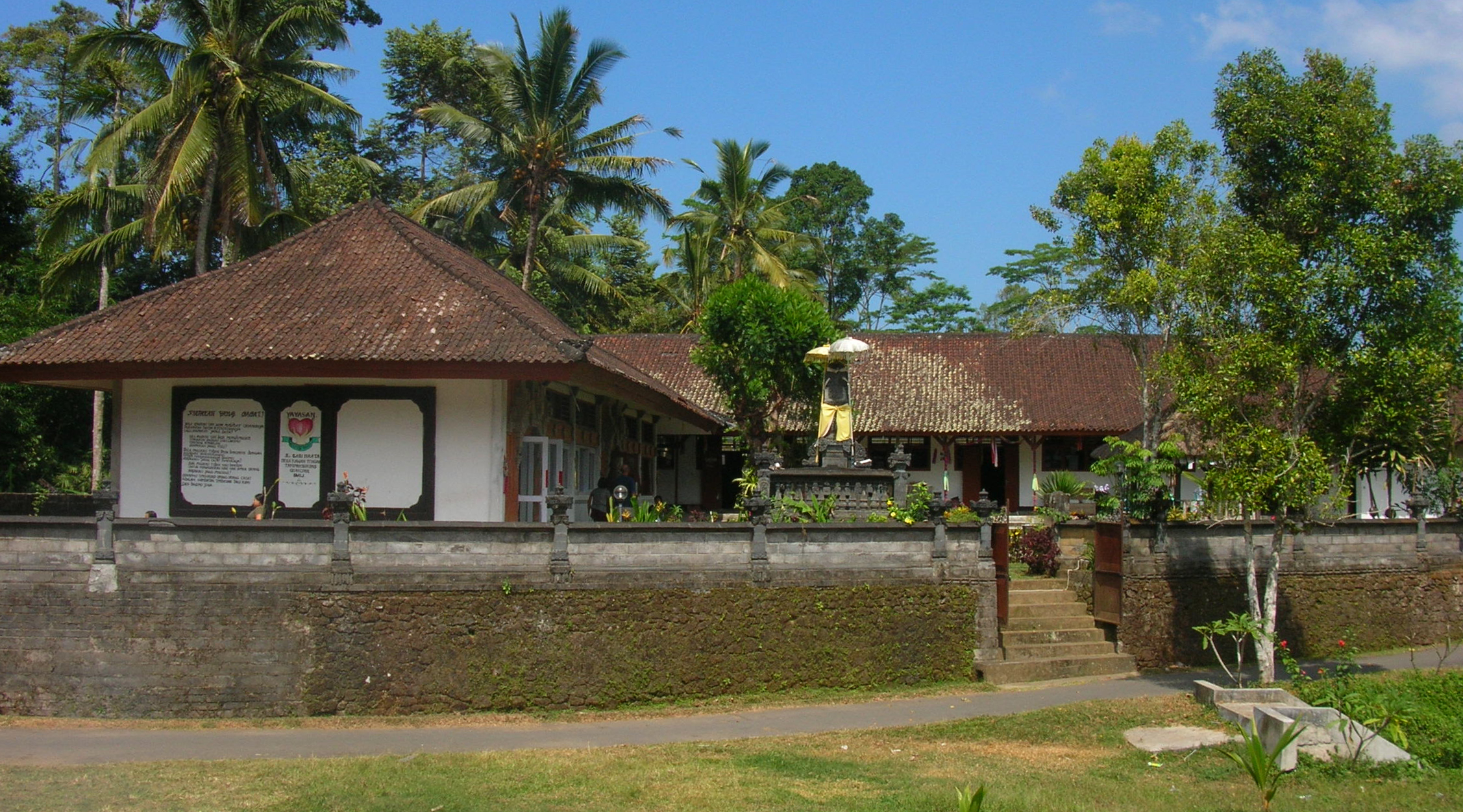 Photo of the Senang Hati Foundation's building